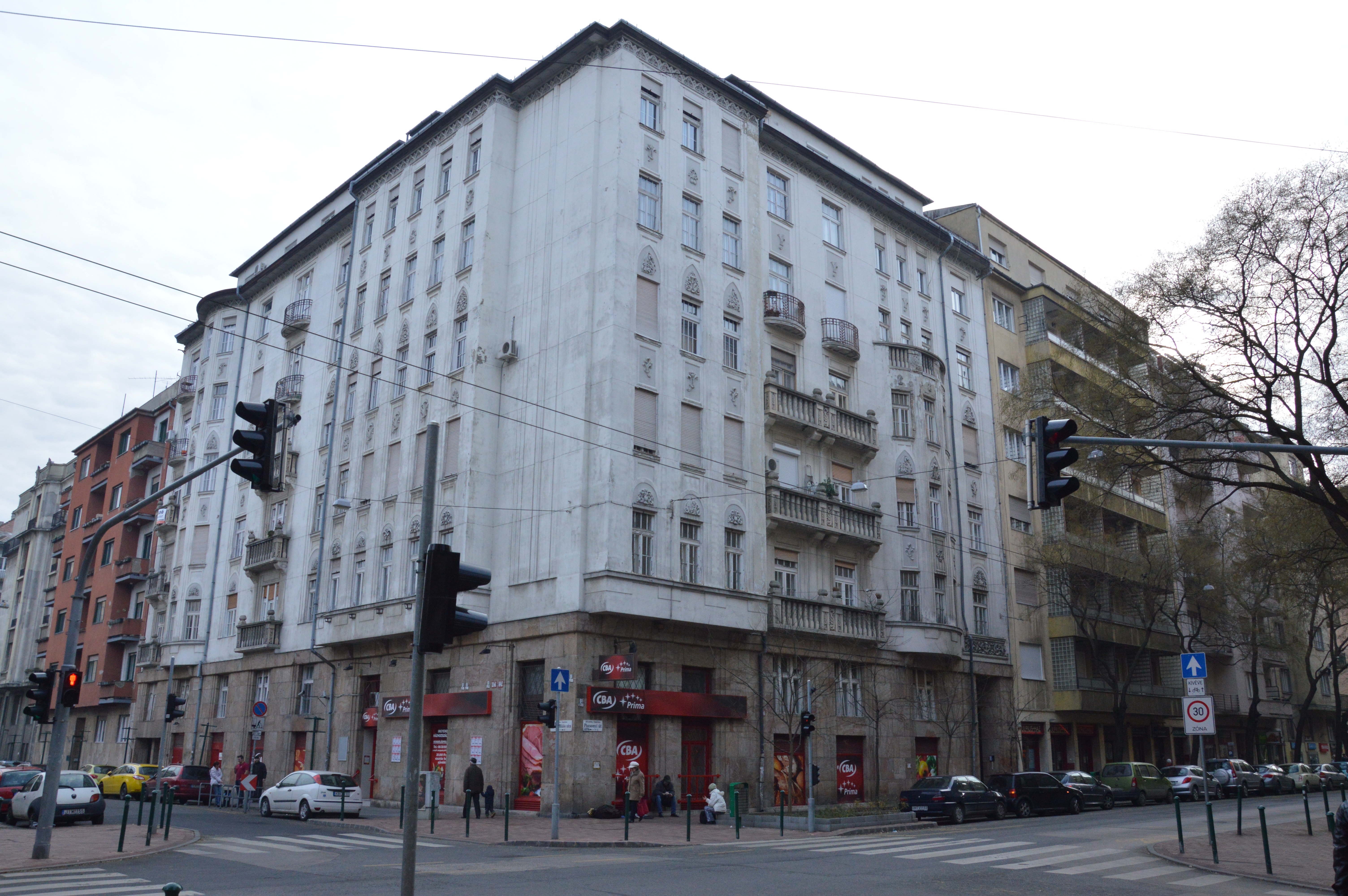 25 Pozsonyi út in Budapest District XIII, Hungary